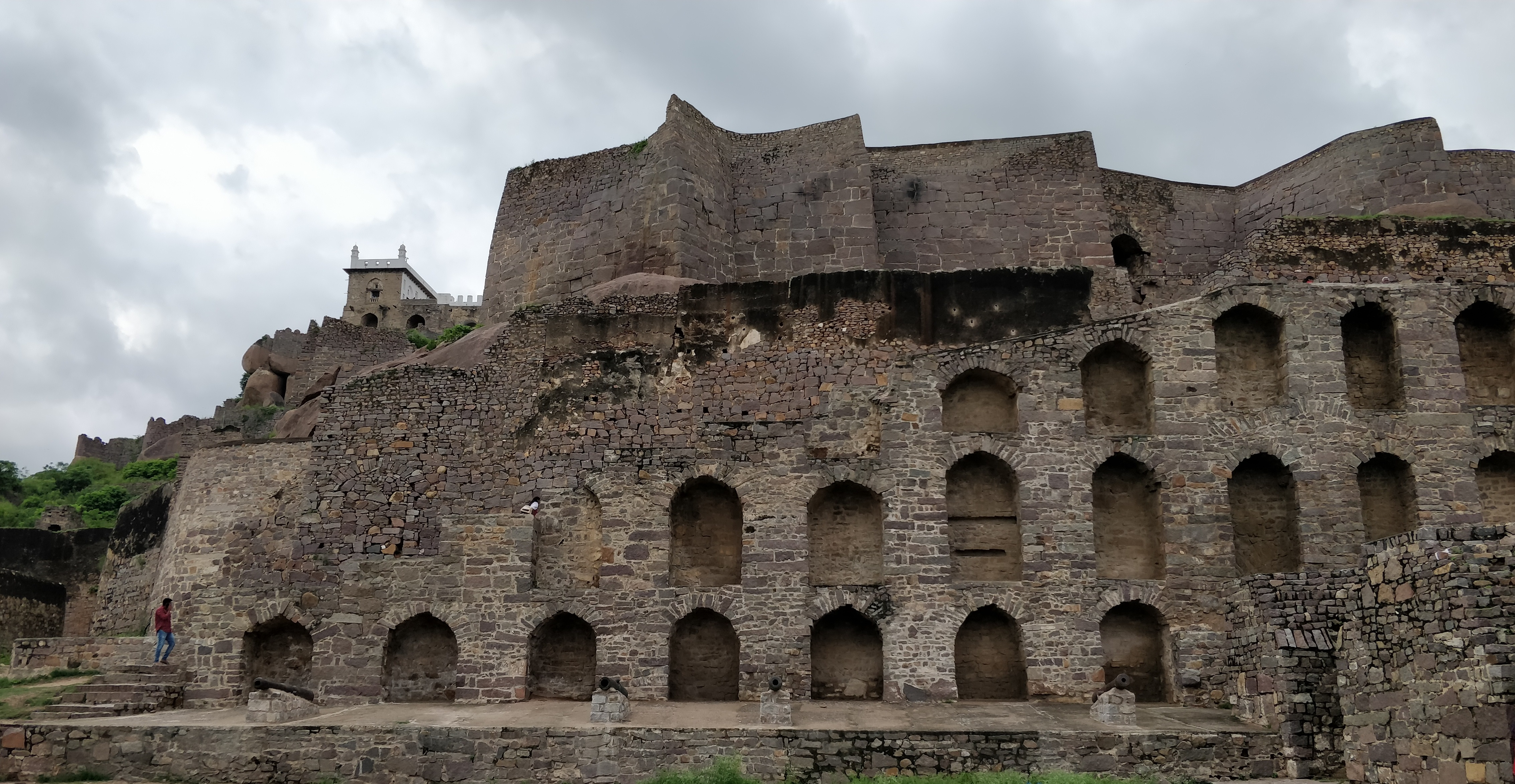 A view of Golconda Fort, Hyderabad